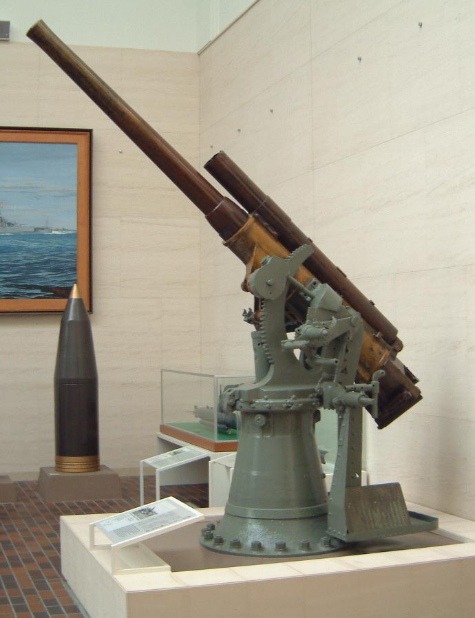 Japanese Type 3 80mm Navy AA Gun at the Yasukuni Shrine. Photo by: Max Smith (myself) Released into the : A photo credit would be nice.